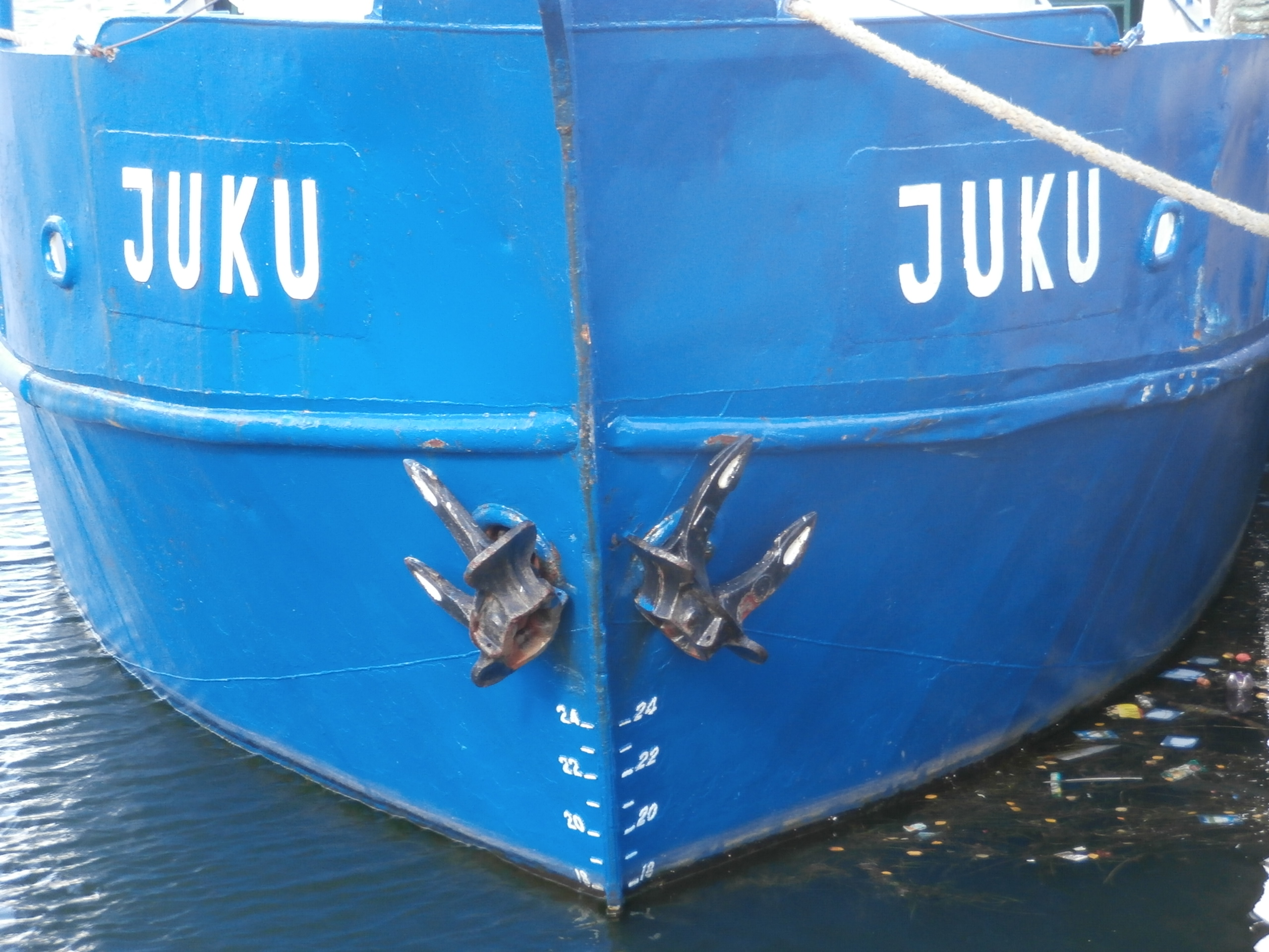 Juku Name on the Bow Tallinn 25 September 2013